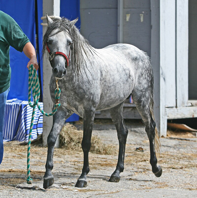 Image By HEather Abounader